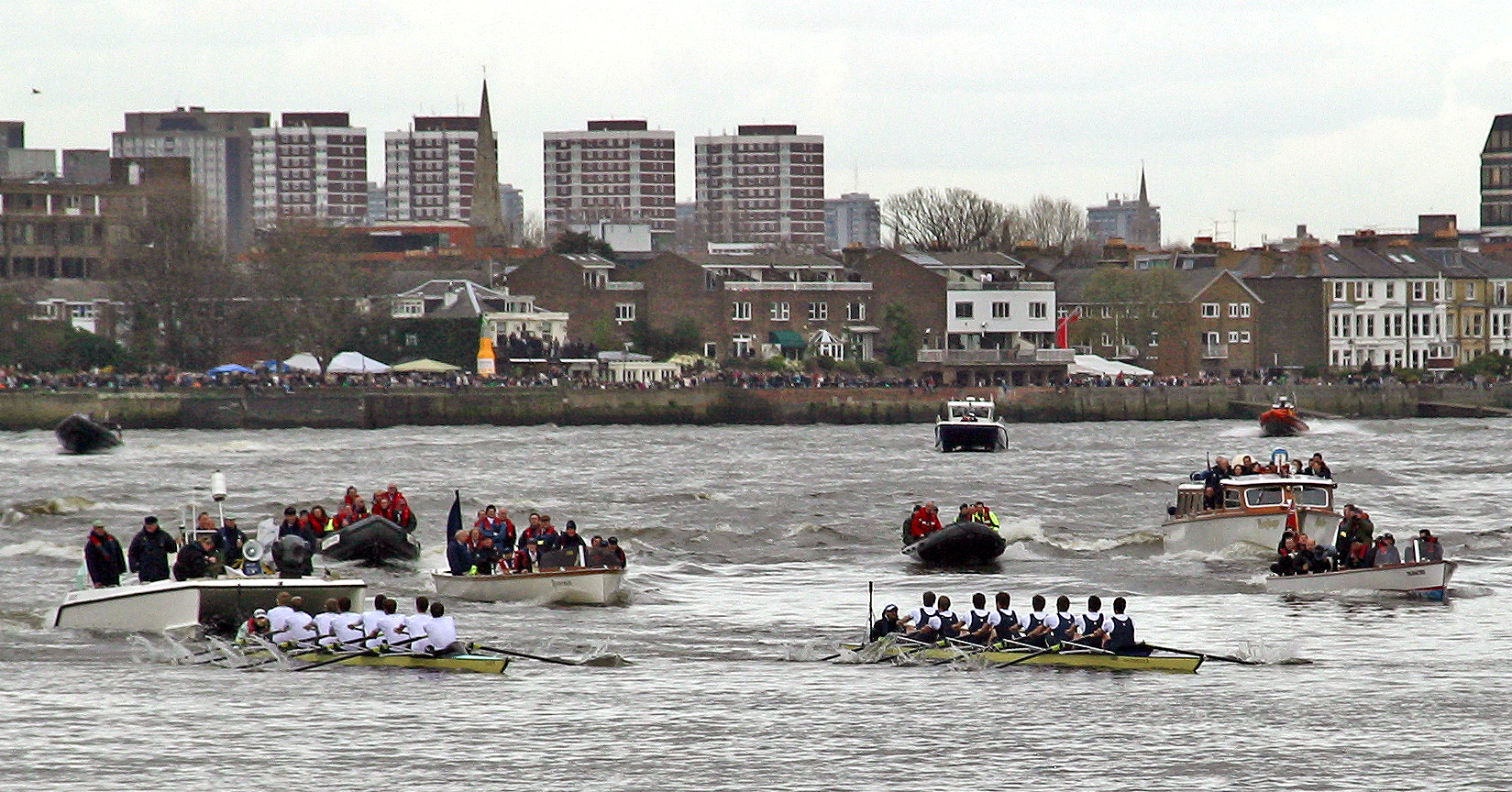 Cambridge VIII (left on the Middlesex station) maintaining position c. half a length behind Oxford (right) approaching Chiswick Pier in the 2010 Boat Race